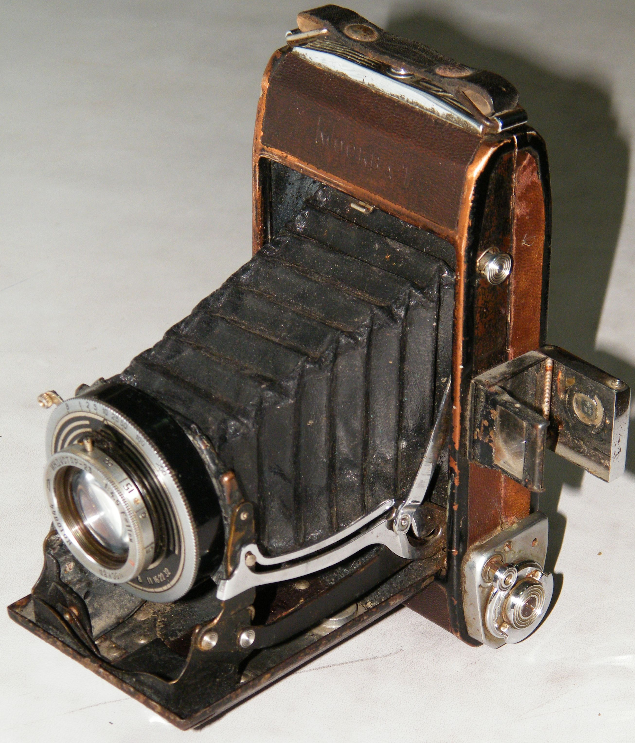 MOSKVA-1 KMZ camera from Evgeniy Okolov collection